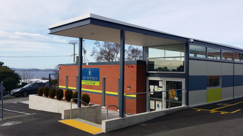 SACC KC ADMIN